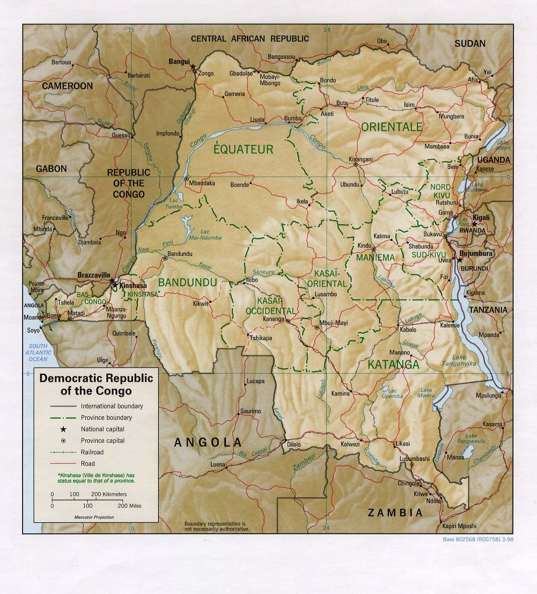 Shaded relief map of the Democratic Republic of the Congo (the former Zaire).